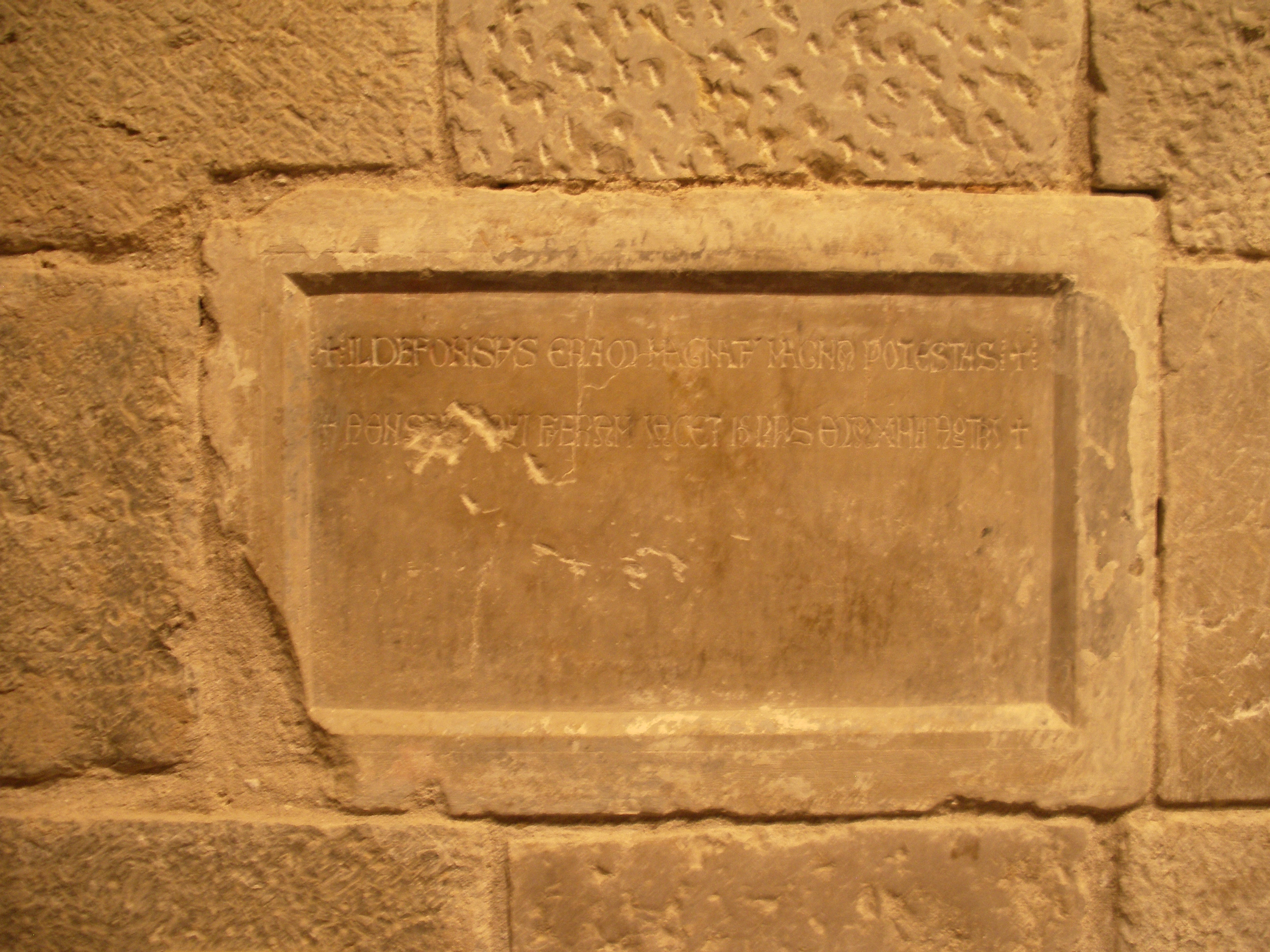 Santa Maria de Vilabertran, tombstone of Alfons II, king of Aragon